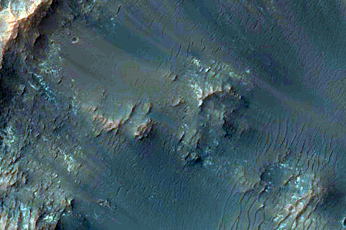 Close-up of Columbus Crater, as seen by hirise. Location is 28.8 S and 193.3 E.